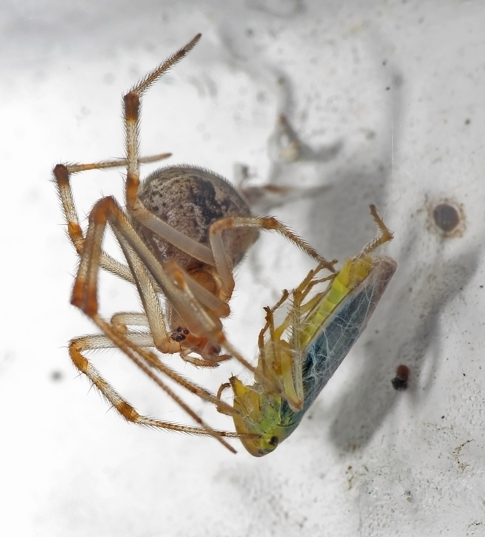 Parasteatoda tepidariorum and Cicadella viridis. Bastavales, Brión, Galicia (Spain)